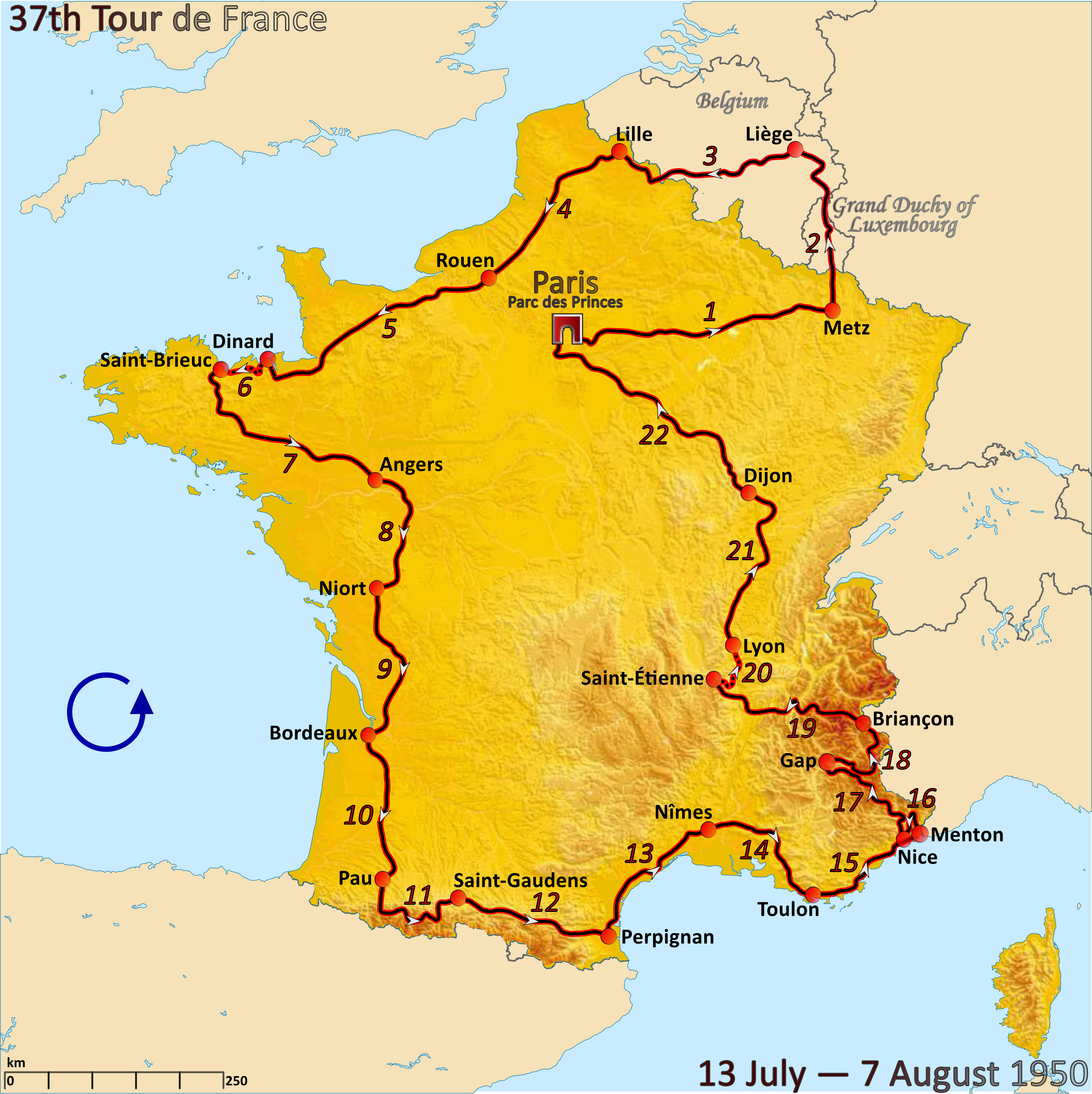 Route of the 1950 Tour de France created in Inkscape using accurate stage maps from touratlas.nl